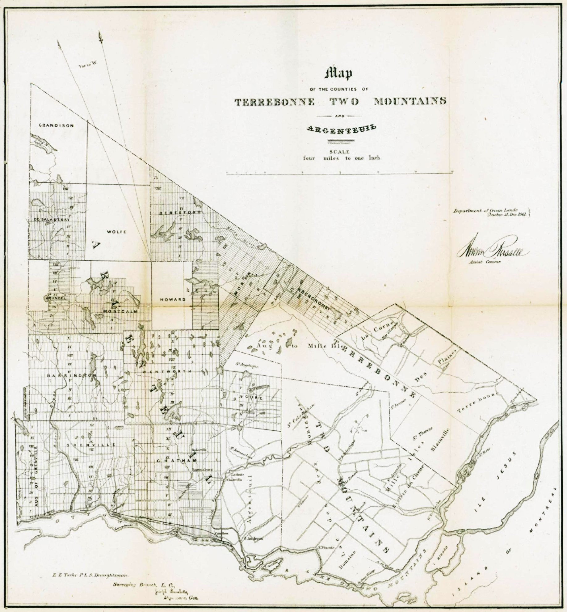 Map of the counties of Terrebonne Two Mountains and Argenteuil : [province of Quebec